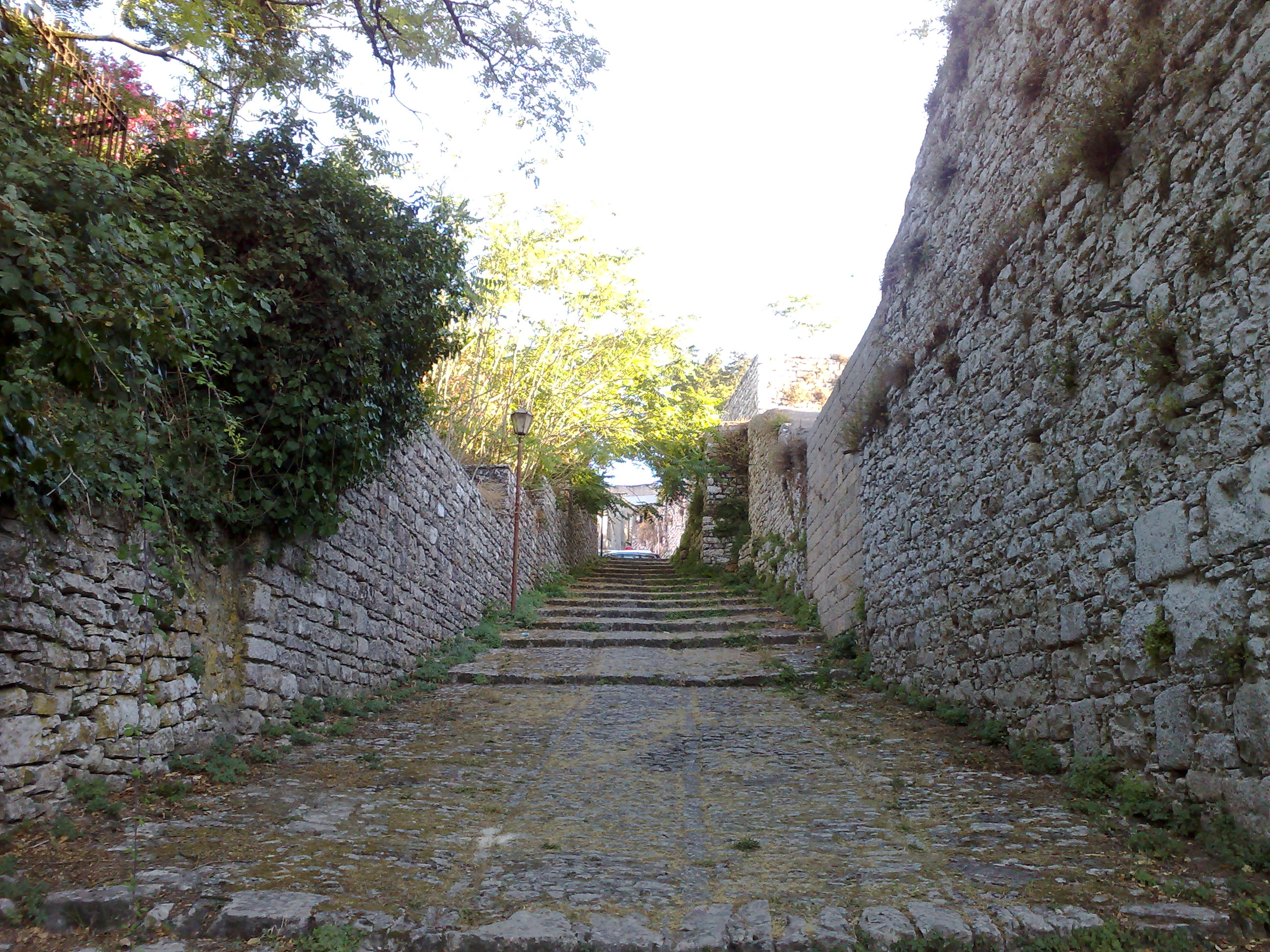 punic walls inErice